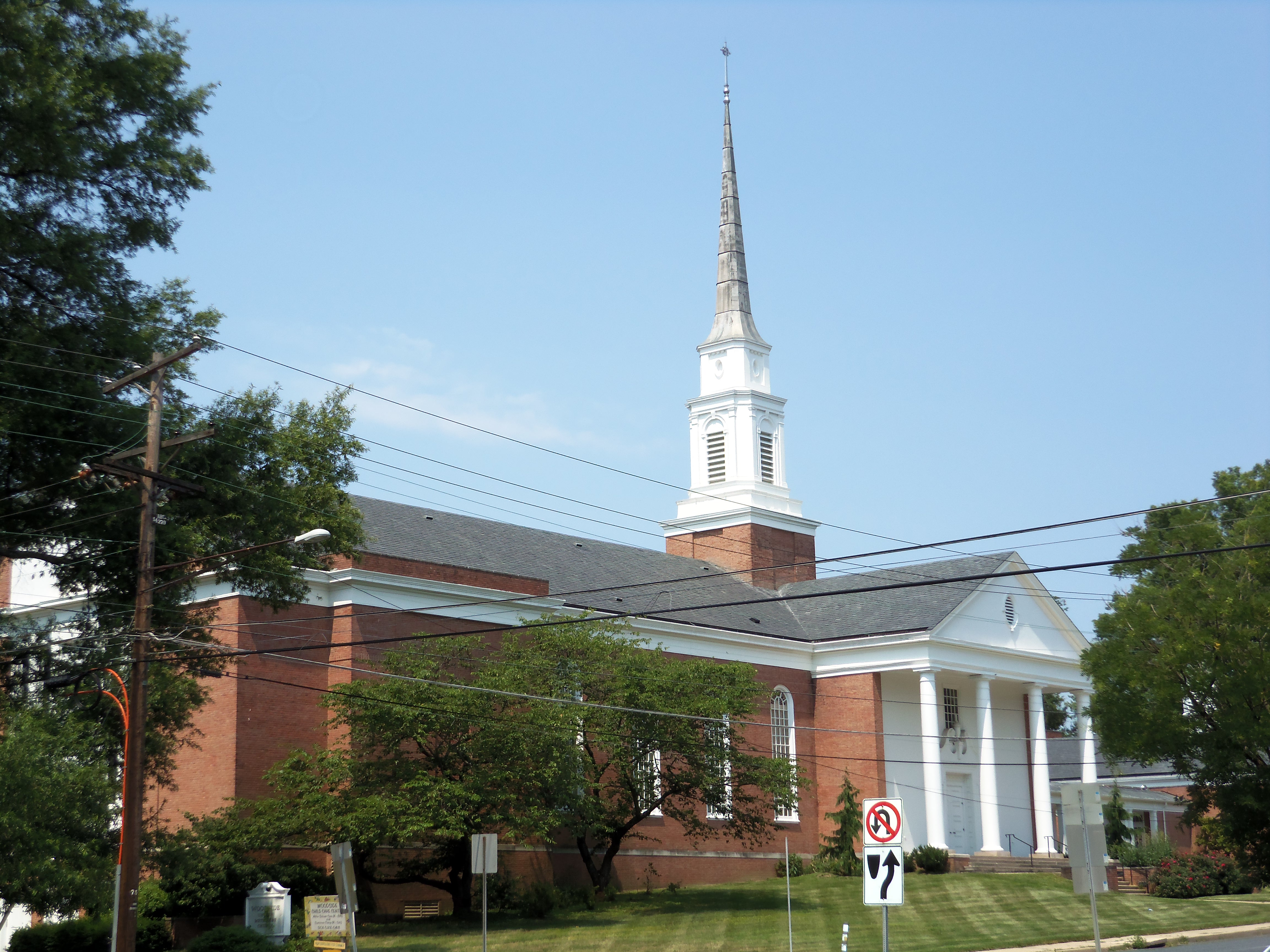 Woodside United Methodist Church on Georgia Avenue in Silver Spring, Maryland. It is now a part of Silver Spring United Methodist Church.